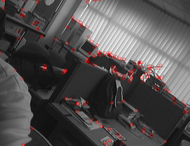 SIFT test on second image.